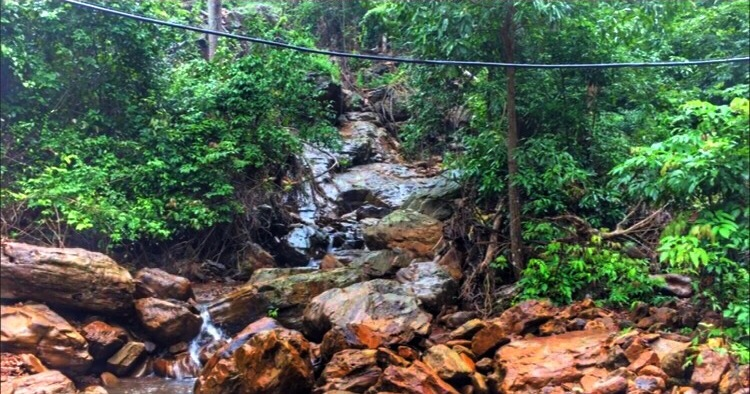 Karlapat Waterfall, Kalahandi